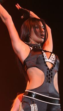 Nicole Scherzinger performed at Jingle Bell Bash 9 at the Tacoma Dome for KISS 106.1